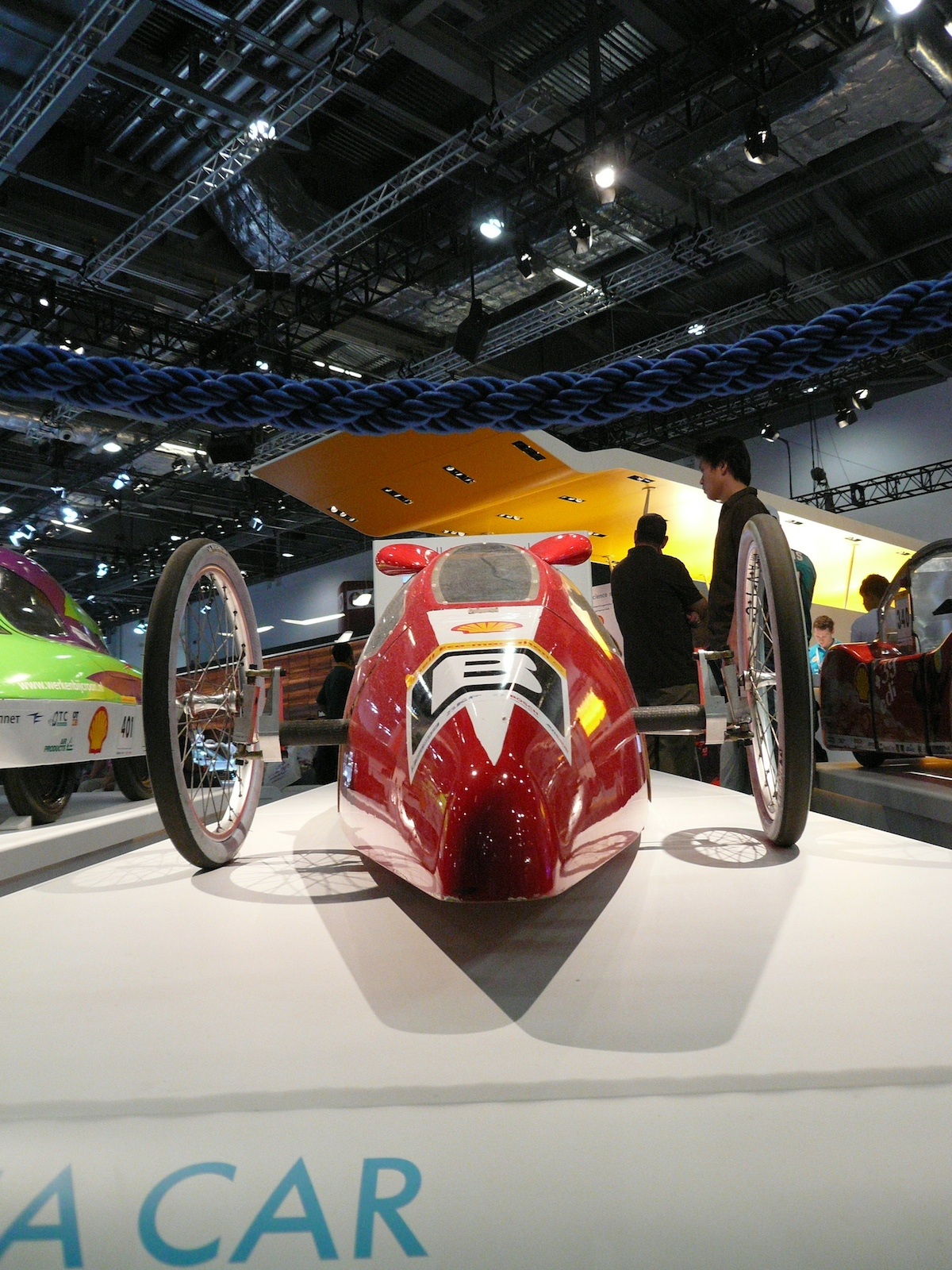 Energy efficient car